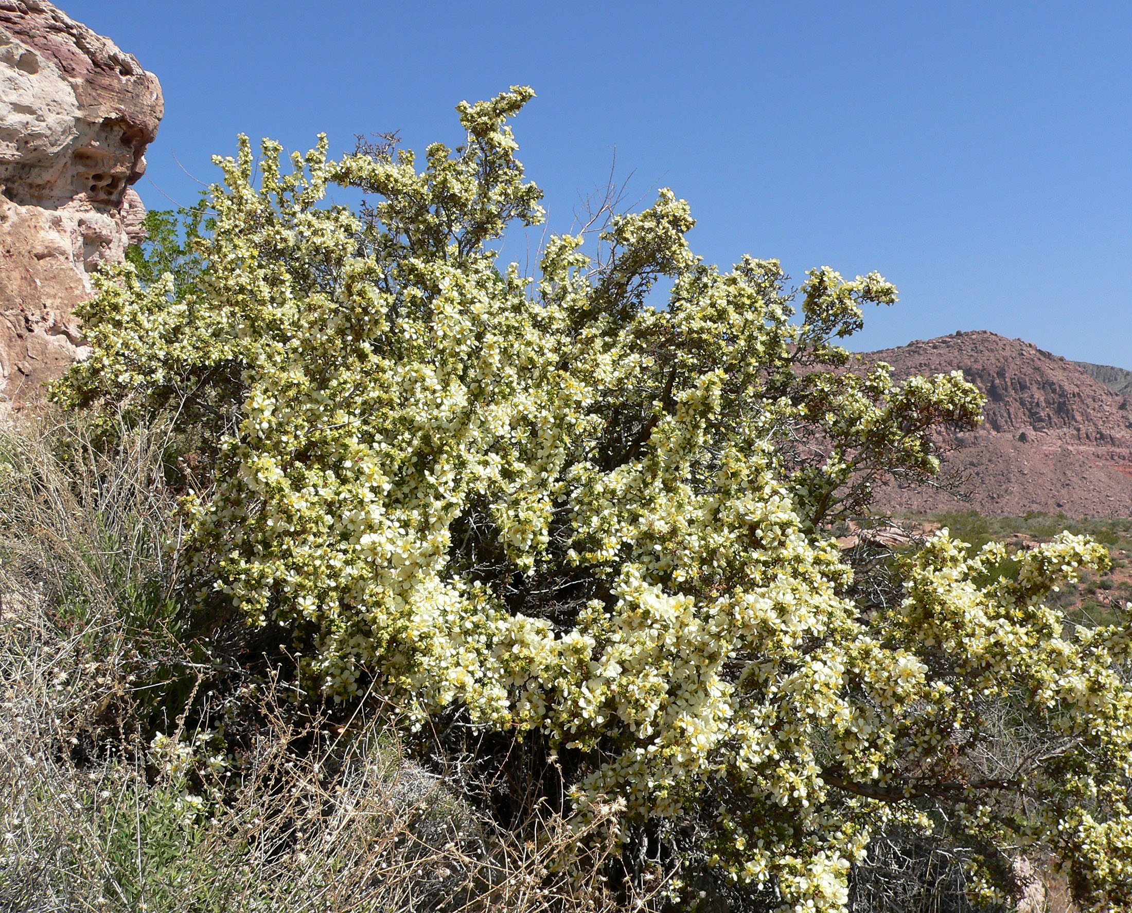 Purshia stansburiana near Red Spring, Calico Basin, Spring Mountains, southern Nevada (elev. about 1100 m)